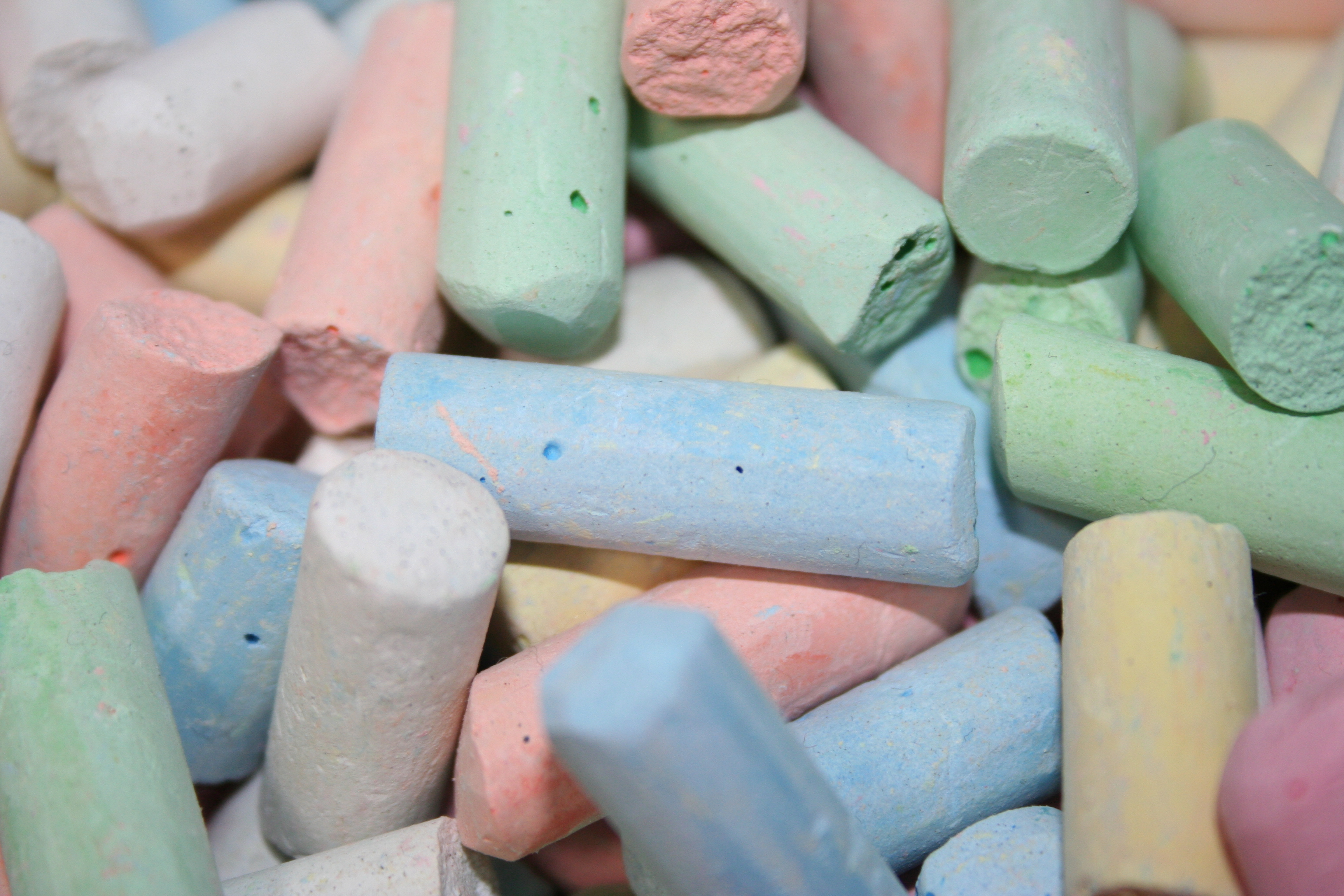 Several coloured chalks, that are really used in a school. IMG_1453